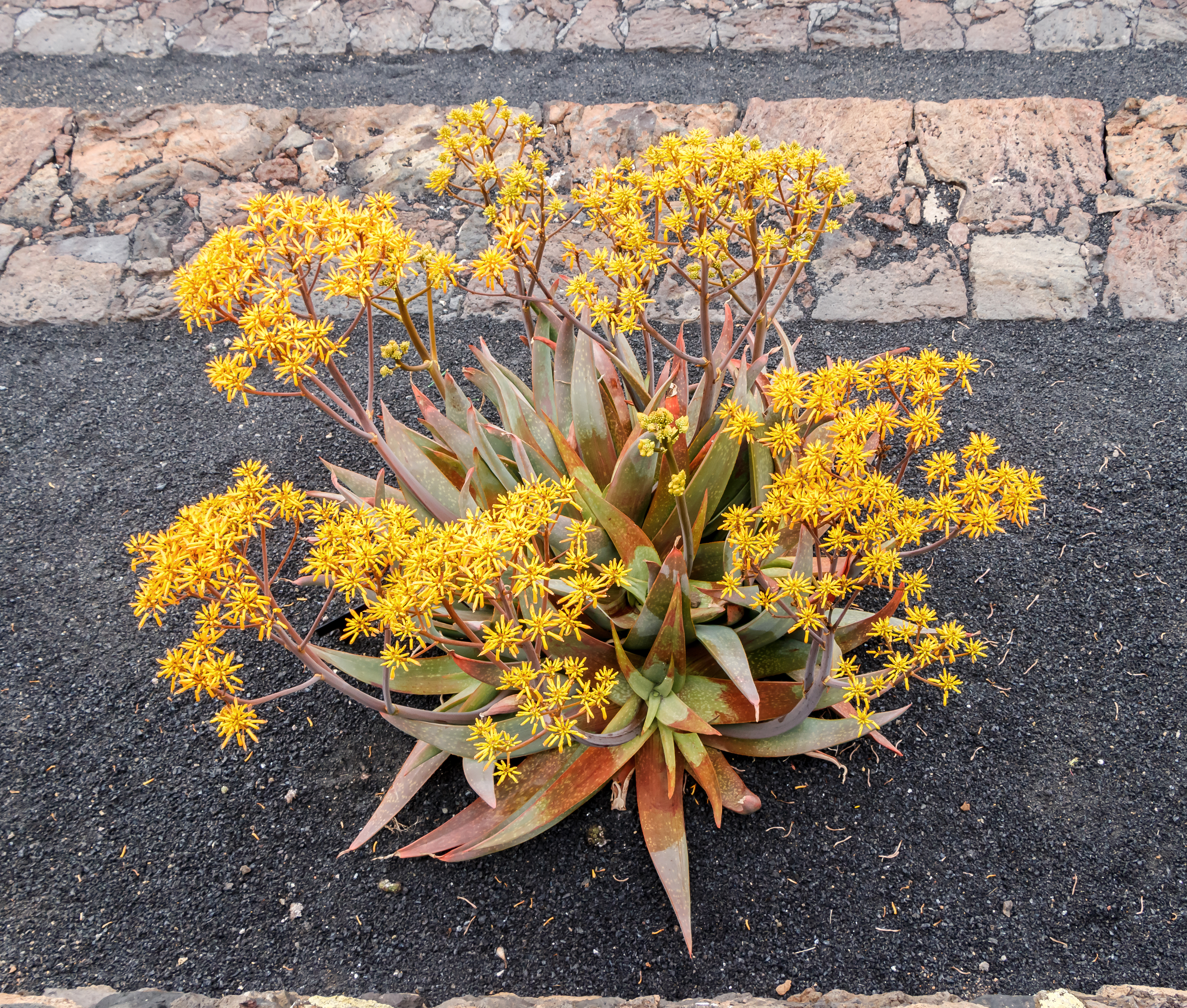 Aloe buhrii Lavranos; habitus; Jardin de Cactus, Guatiza, Lanzarote, Canary Islands, Spain.